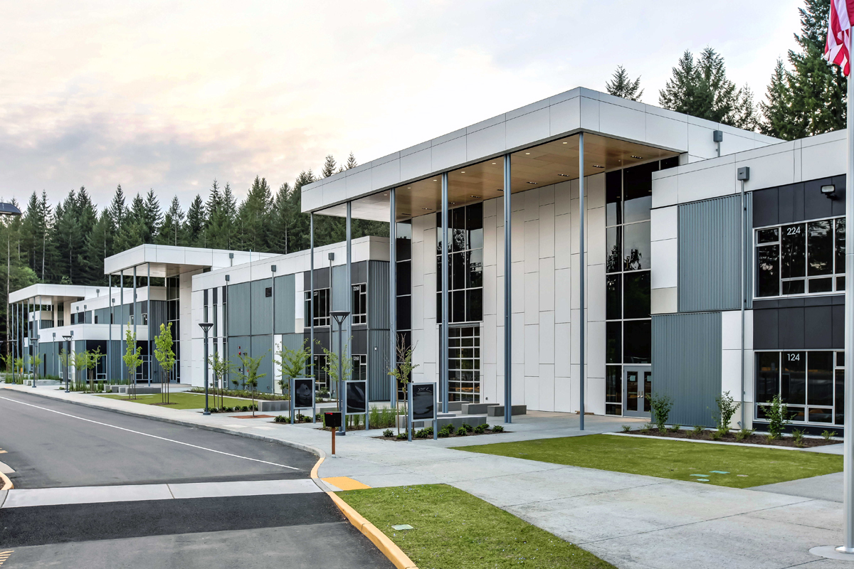 Front entrance of the STEM School in Redmond, Washington.